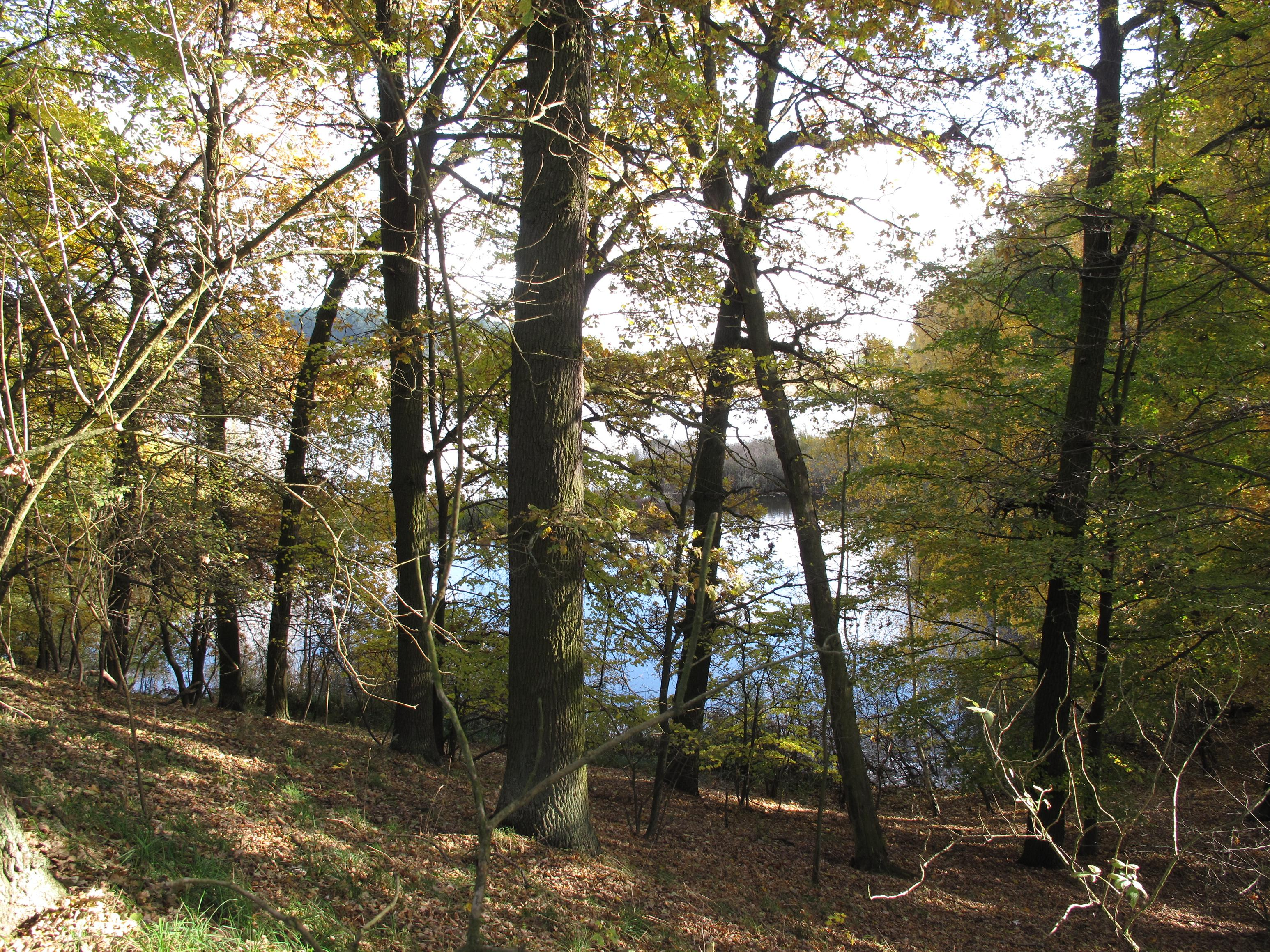 Slope of the Kesselberg (hill) over the southern bank of the Poschfenn. The Poschfenn is a lake (fen) in Stücken and Fresdorf, parts of the municipality Michendorf in the district Potsdam-Mittelmark, state Brandenburg, Germany. The lake covers 0,06 km² and is situated in the Nuthe-Nieplitz Nature Park.